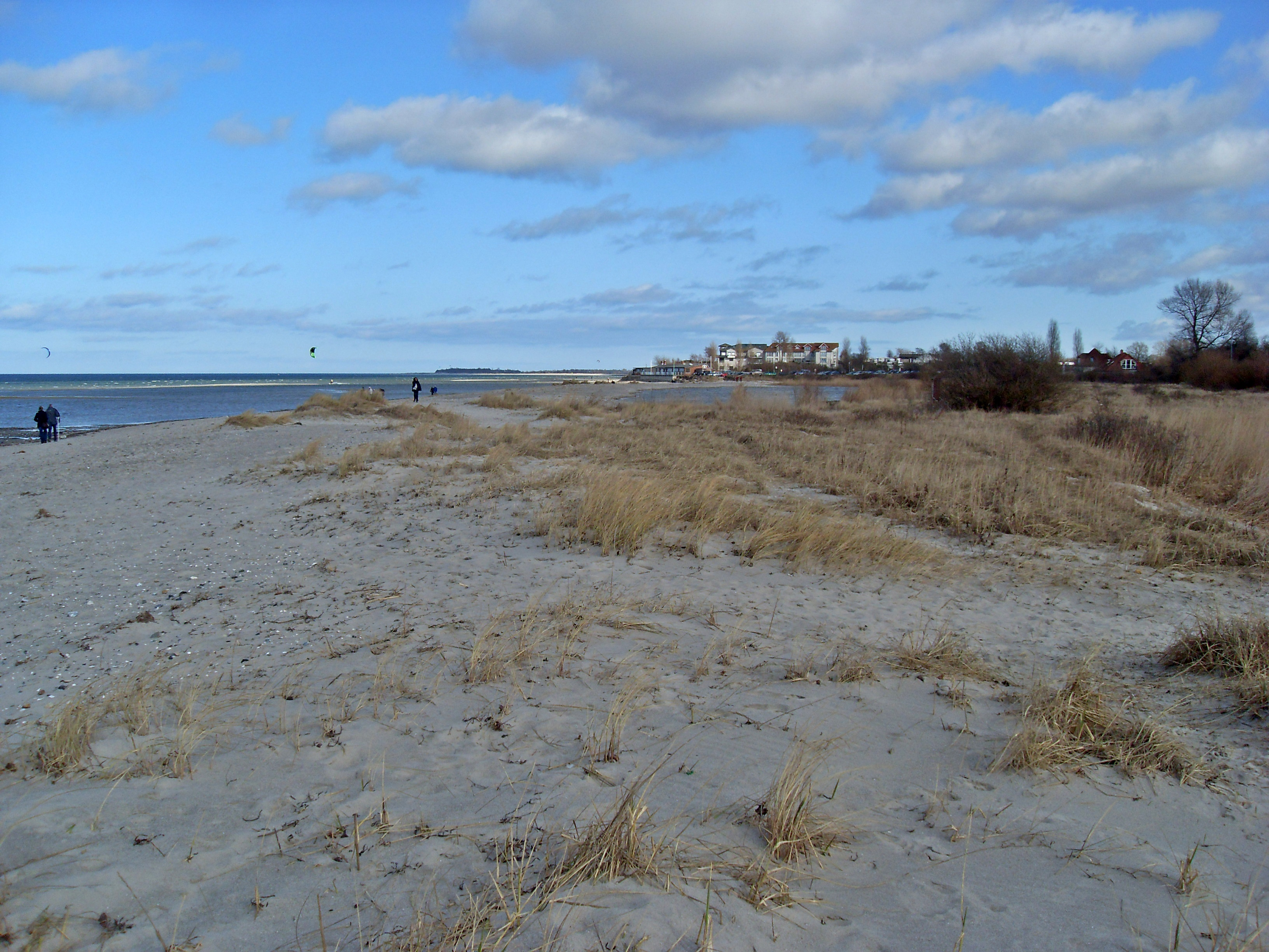 Naturerlebnisraum Dünenlandschaft Laboe, northeast of the village at the Baltic Sea